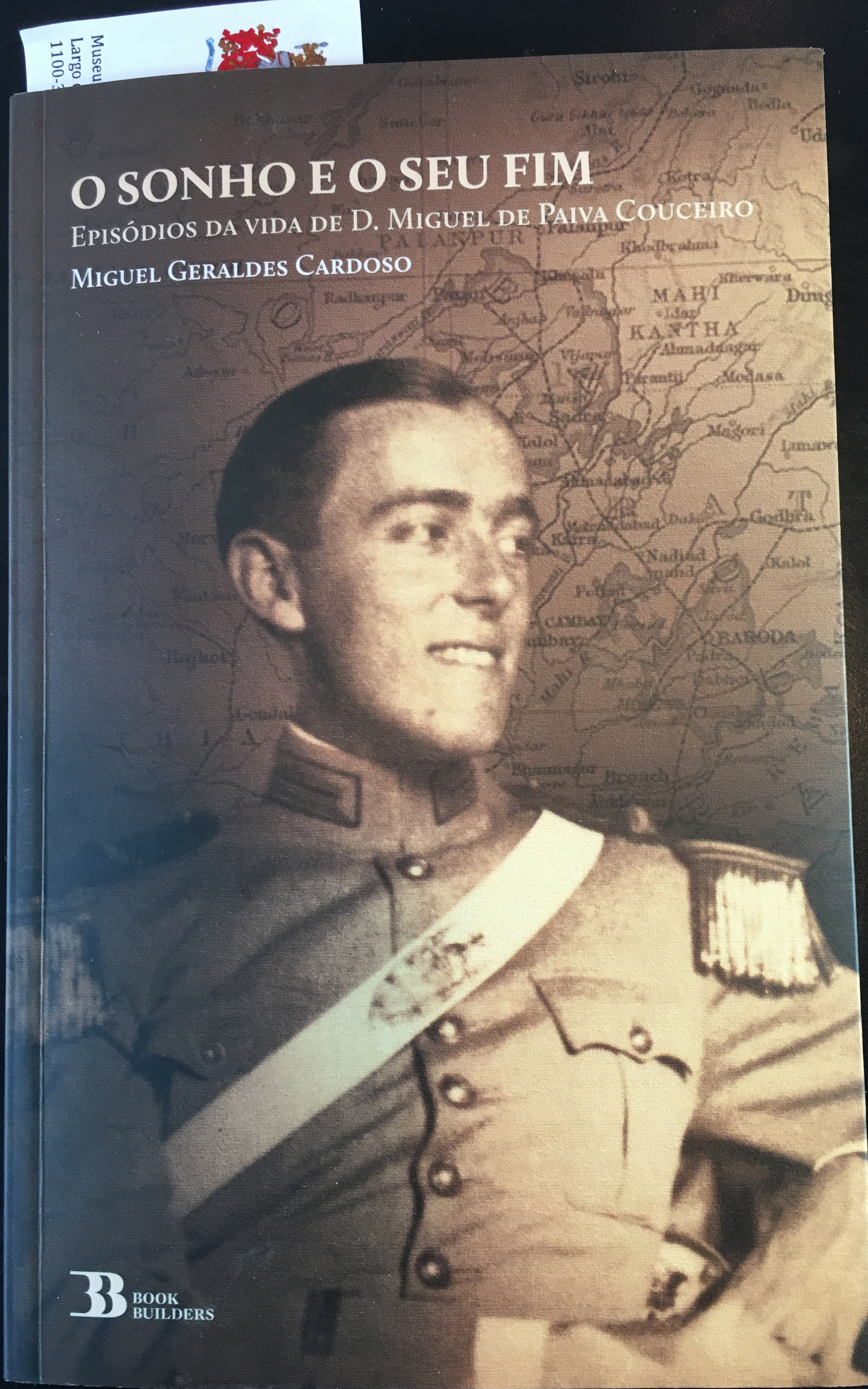 Cover of "O Sonho e o seu Fim"